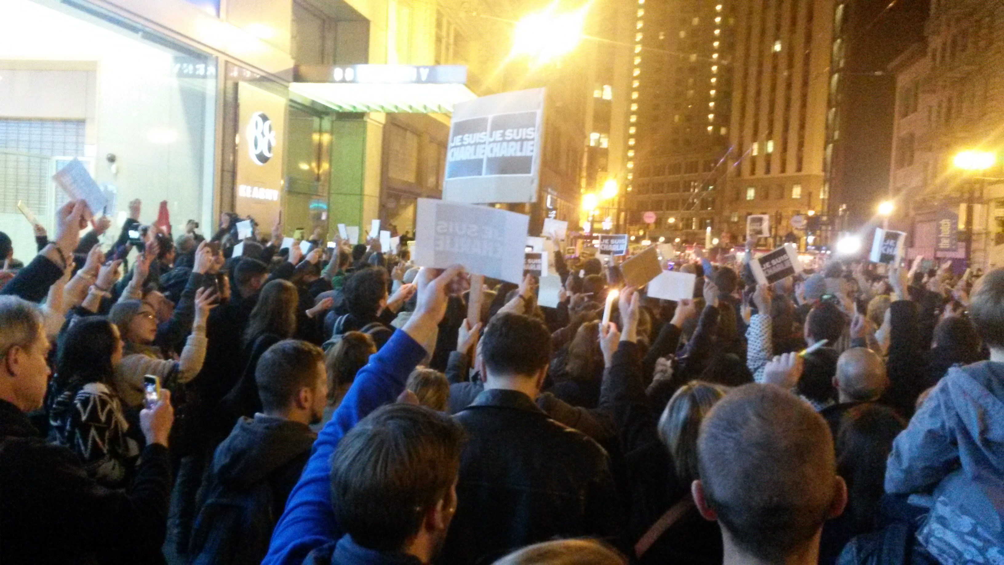 Rally in support of the victims of the 2015 Charlie Hebdo shooting at 88 Kearny St. in San Francisco, January 7, 2015, ~7PM.